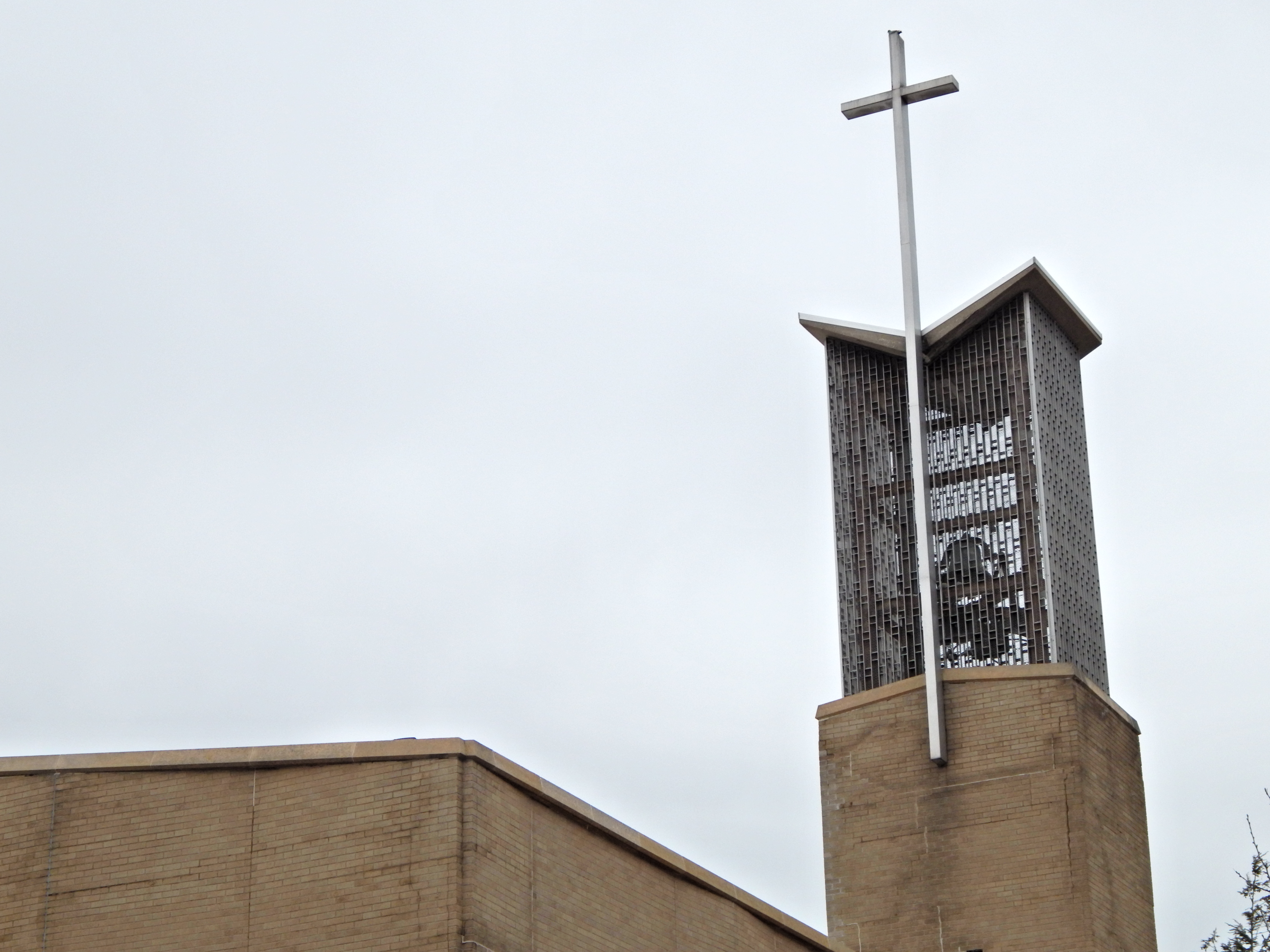 The cross, topping St. Matthew Cathedral, at 1701 Miami Street South Bend, Indiana